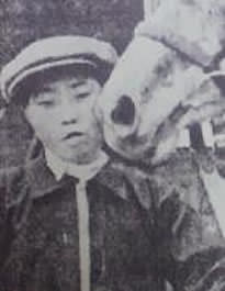 world's first female jockey from Japan, Saitō Sumiko（1913-1942）